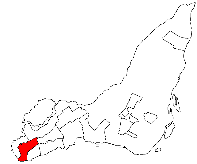 Map of Sainte-Anne-de-Bellevue on the Isle of Montreal